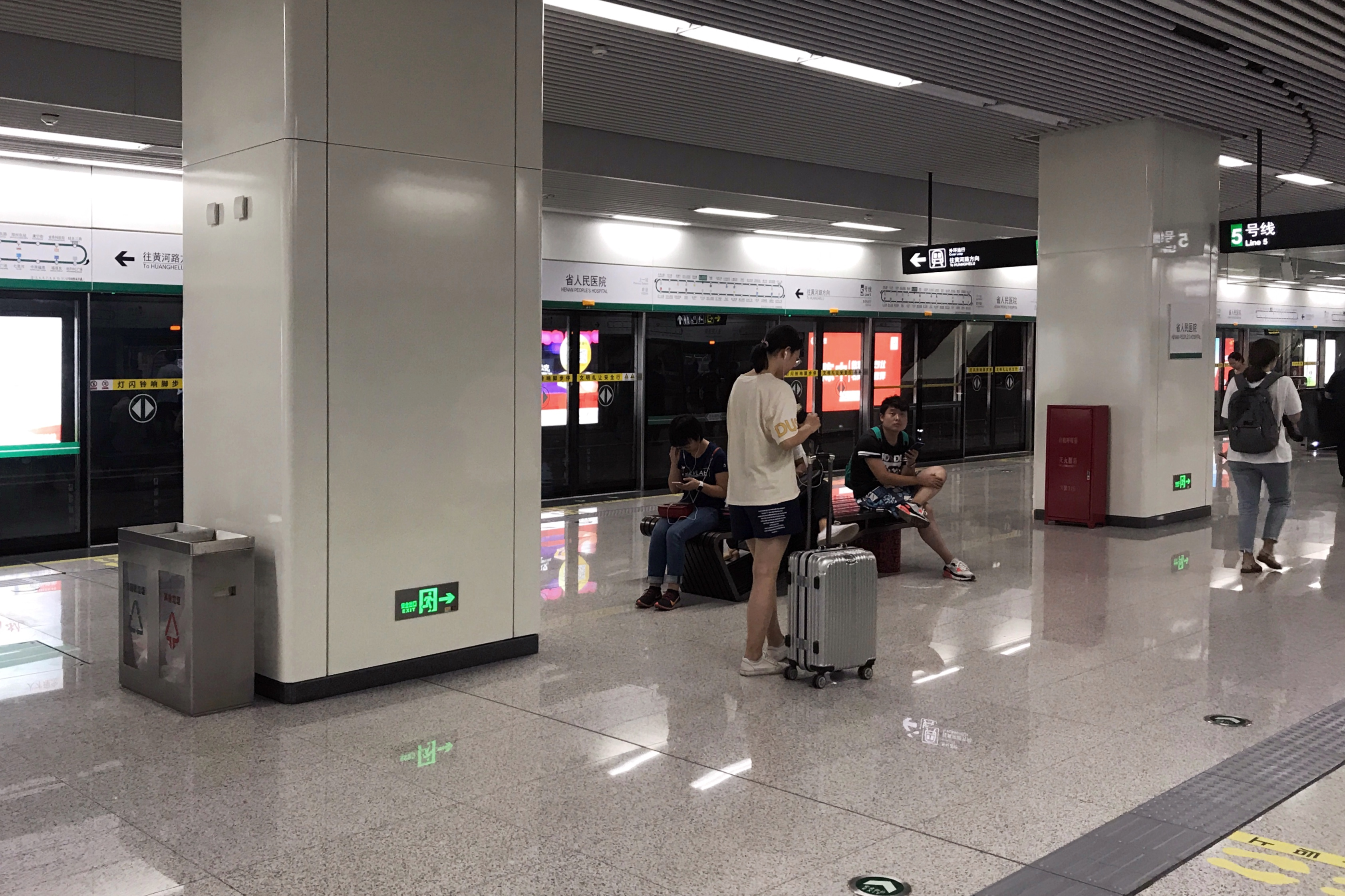 Platforms of Henan People's Hospital Station